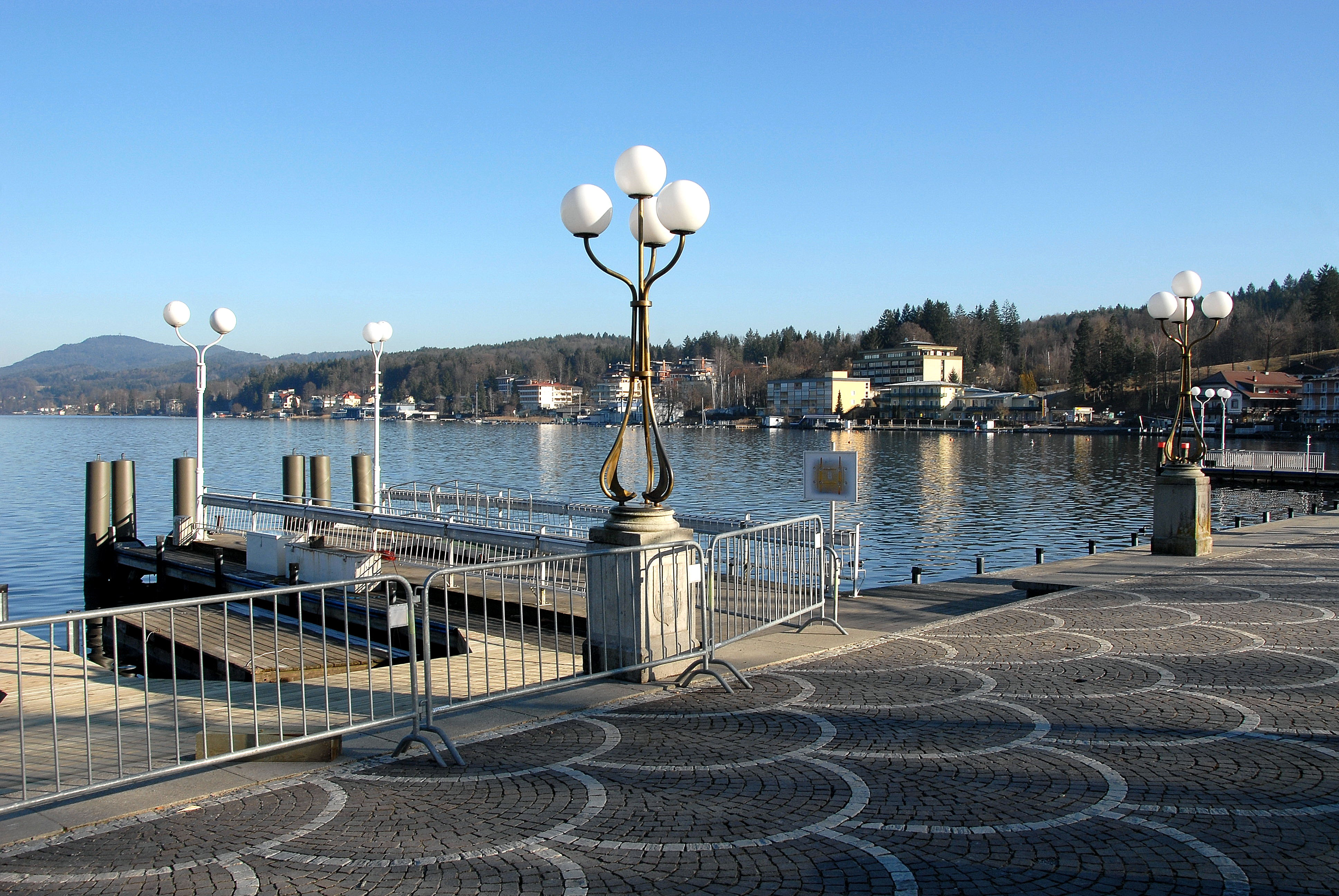 Promenade on the Lake Woerth with ship landing stage in Velden am Wörthersee, district Villach-Land, Carinthia, Austria